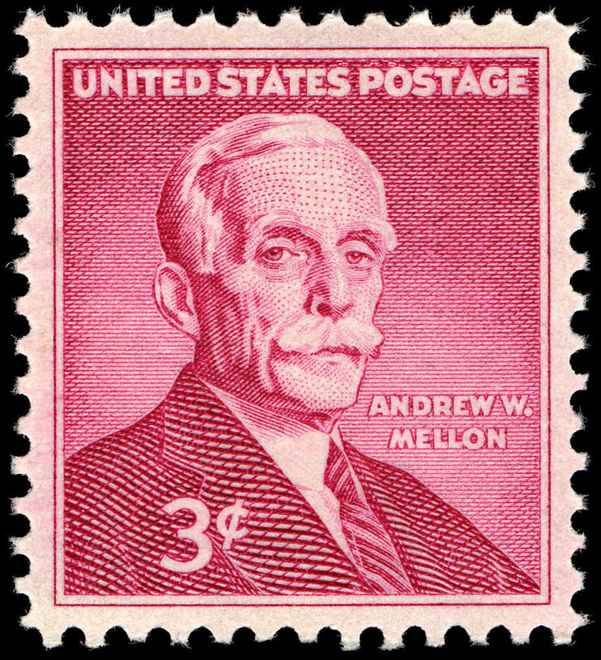 US postage stamp: 3-cent stamp commemorating the centennial of the birth of Andrew W. Mellon (1855-1937) issued December 20, 1955.